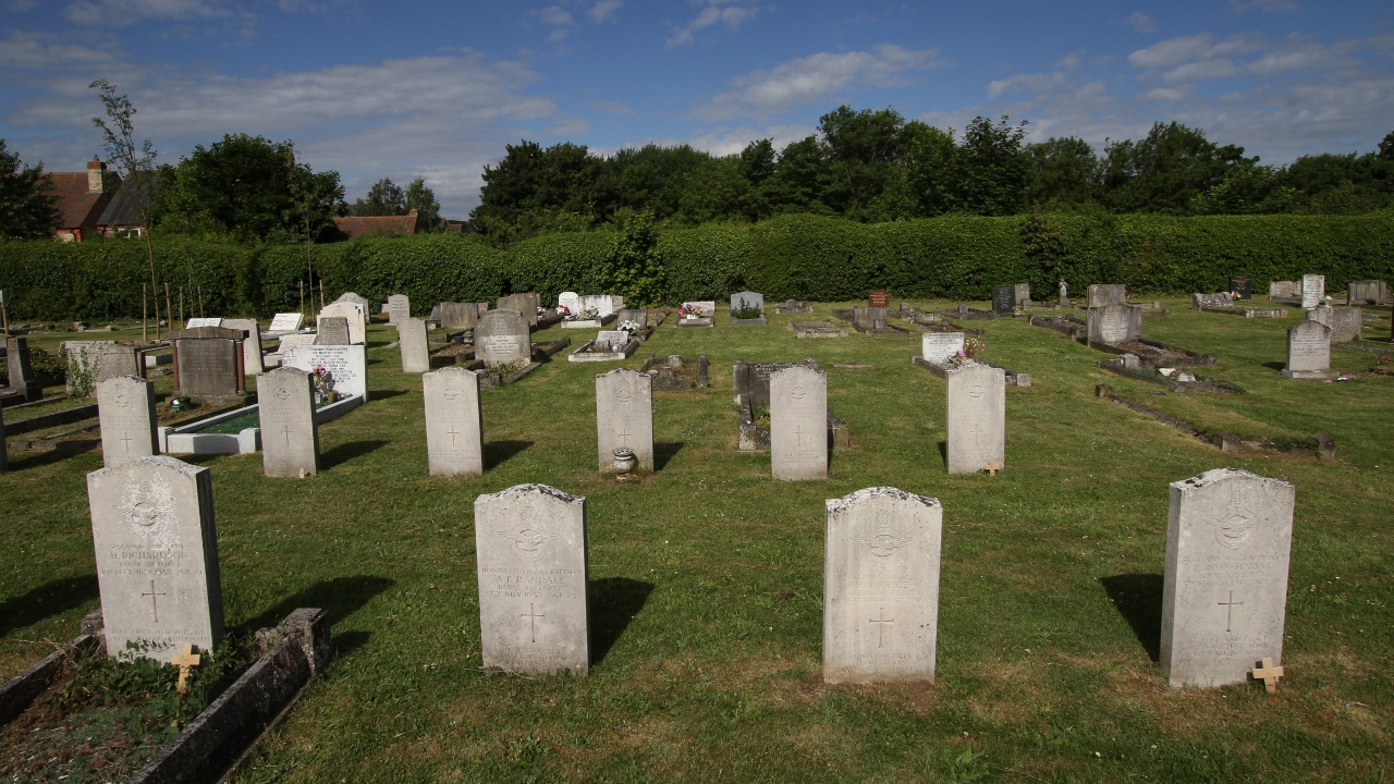 Part of Abingdon New Cemetery, Spring Road, Abingdon, Oxfordshire (formerly Berkshire). In the two rows nearest the camera are 10 CWGC headstones of RAF airmen who died in 1955, '57 and '58. The 1957 burials are seven victims of the Sutton Wick air crash on 5 March 1957.